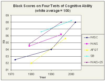 Template:SVG graph project Data from graphed in excel.